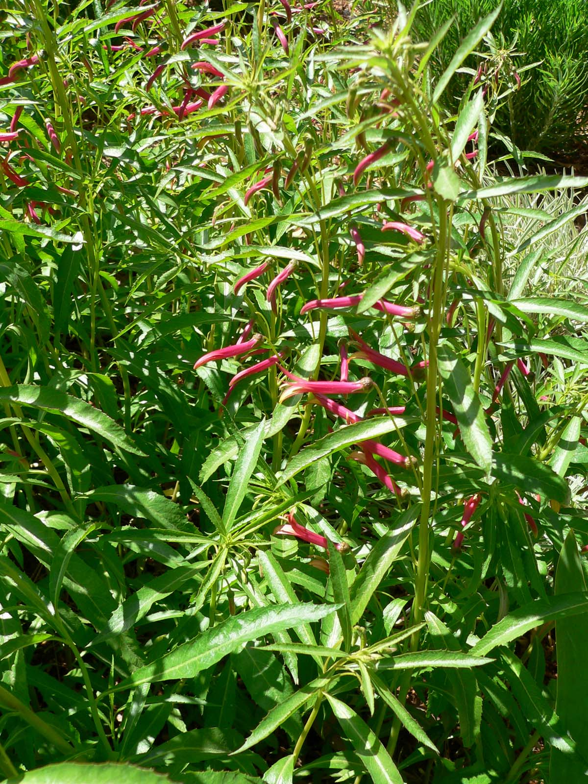 Photo of Lobelia laxiflora (Mexican bush lobelia) at the Desert Demonstration Garden in Las Vegas, Nevada